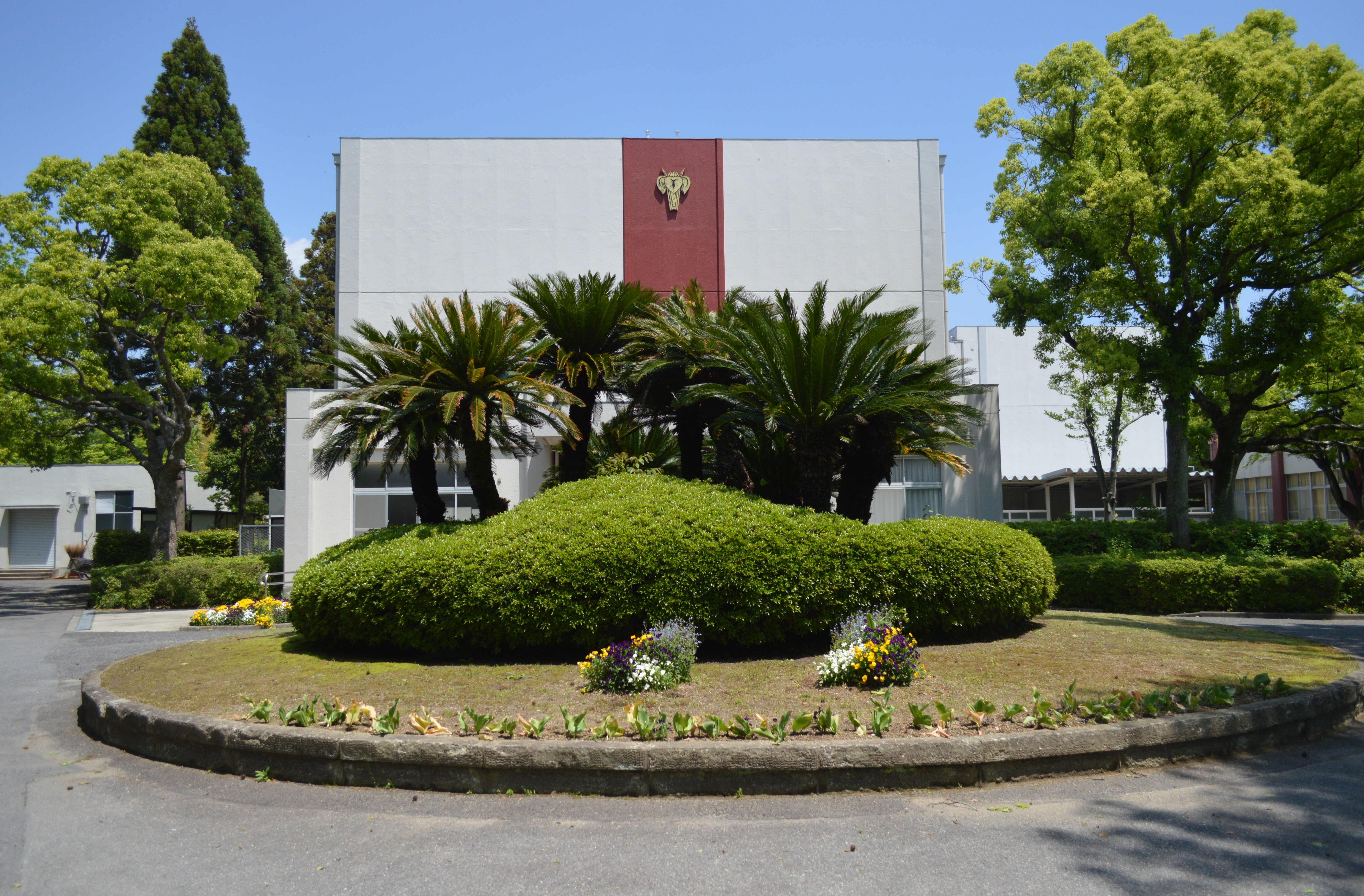 Senier High School Affiliated to Aichi University of Education, Kariya, Aichi, Japan.